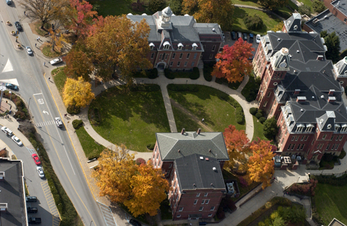 Aerial view of Woodburn Circle on West Virginia University's downtown campus